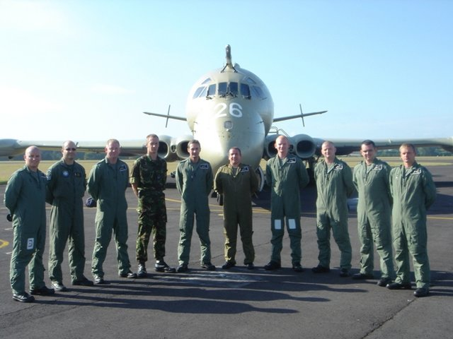 Original description: I had this photo taken on my digital camera whilst in New Zealand as part of the RAF's Nimrod detachment. It can be found on my livejournal scrapbook here Gearfinger Ross Morgan 09:59, 15 August 2006 (UTC)